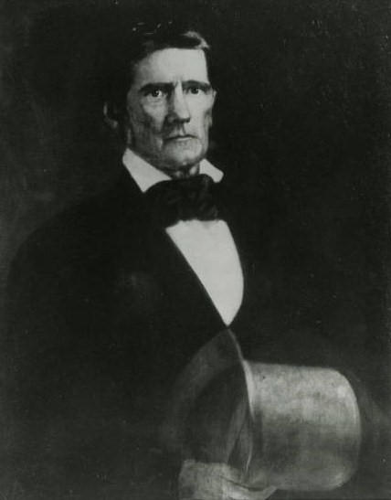 Image of Robert Jefferson Breckinridge (1800-1871)